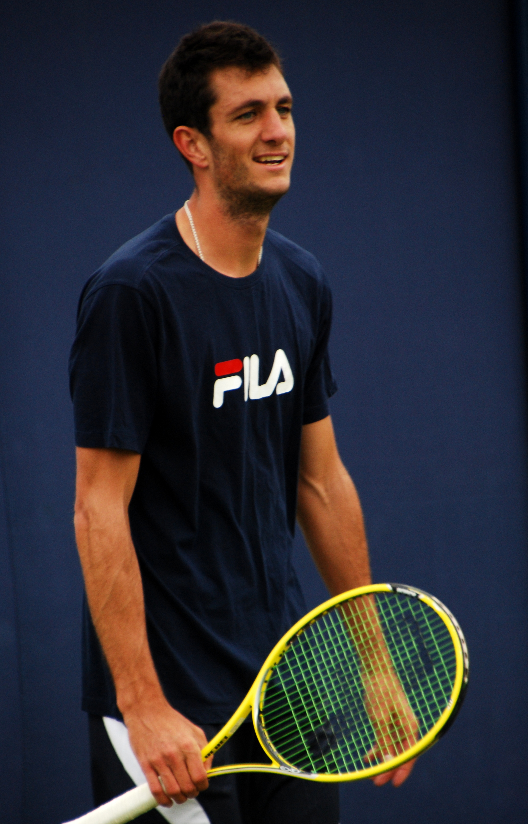 Practice at Queens Club.